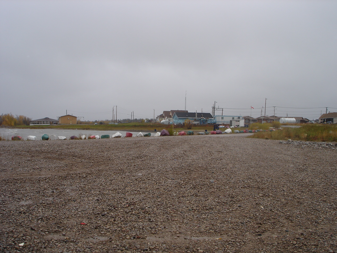 The community of Fort Resolution